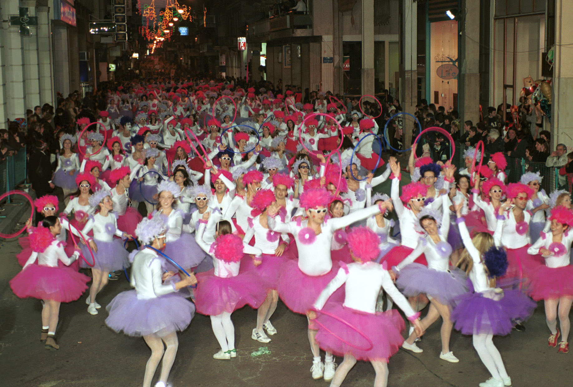 Drini 19:46, 10 December 2006 (UTC)